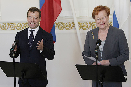 HELSINKI. With President of Finland Tarja Halonen at a press conference following Russian-Finnish talks.